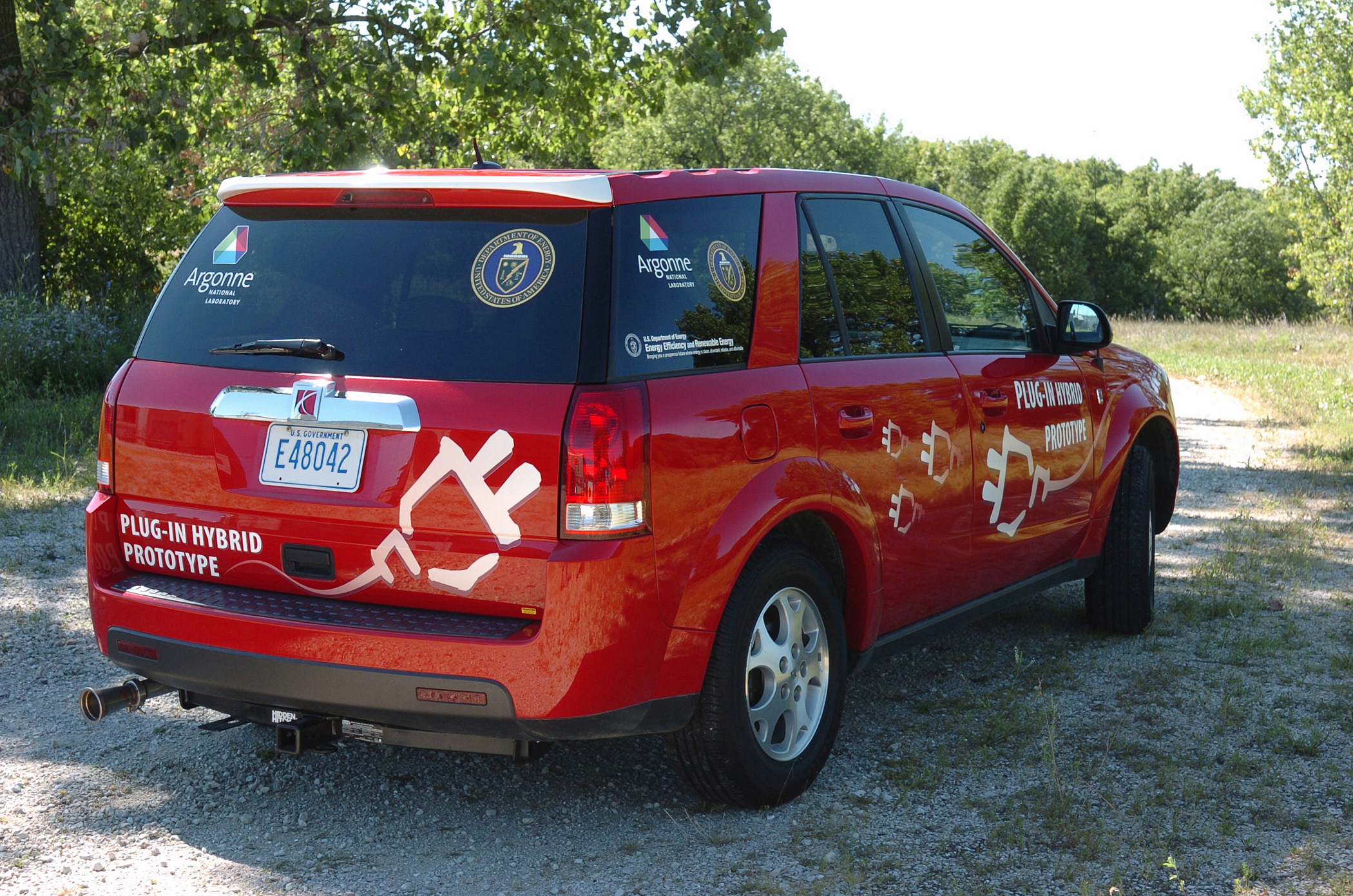 Argonne's Through-the-Road (TTR) Plug-in hybrid prototype (Saturn Vue).